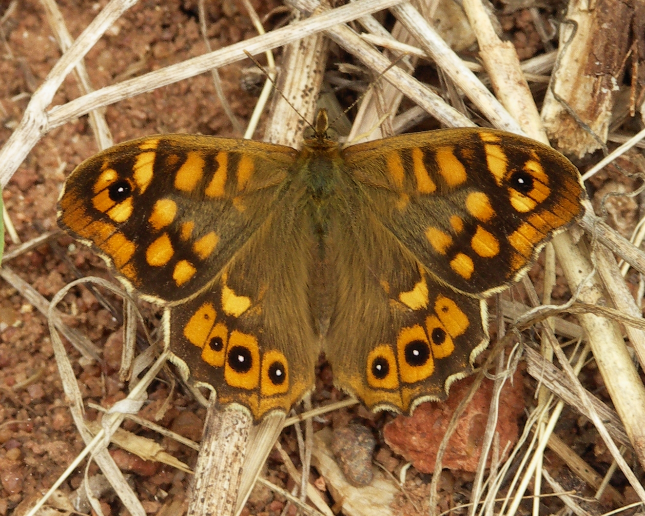 A Speckled Wood butterfly (Pararge aegeria)